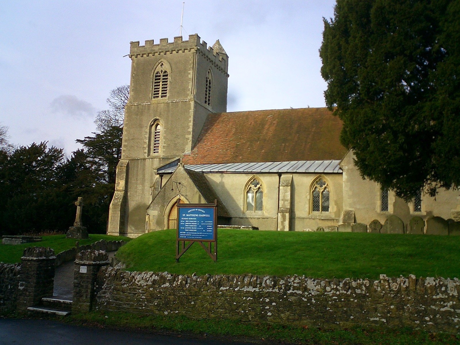 Church of England parish church of St Matthew, Harwell, Oxfordshire (formerly Berkshire), England. Photograph by Jonathan Bowen, 17 January 2006.